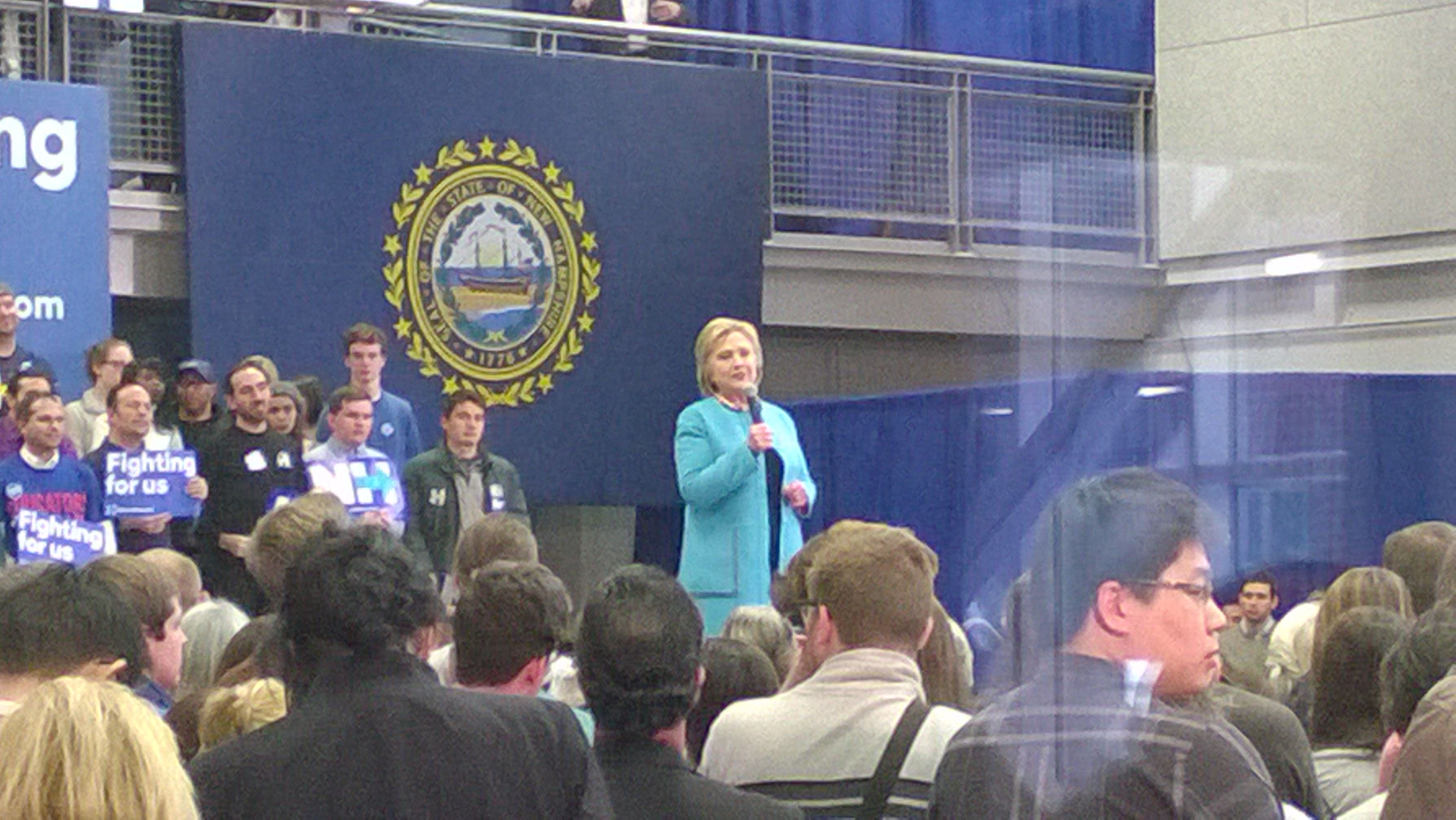 Hillary Clinton speaking at Manchester Community College, Manchester, NH, Feb 8, 2016